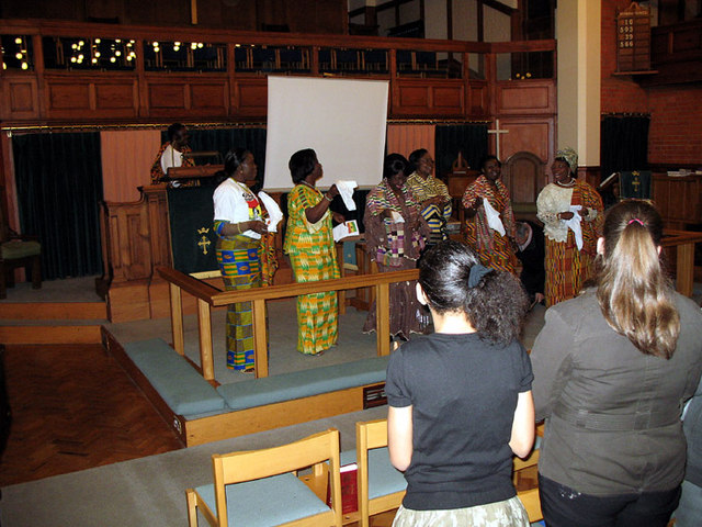 Ghanaian Independence Celebrations A group of Ghanaian ladies in traditional dress lead the singing at a service to mark the 50th anniversary of Ghanaian independence in Golders Green Methodist church.